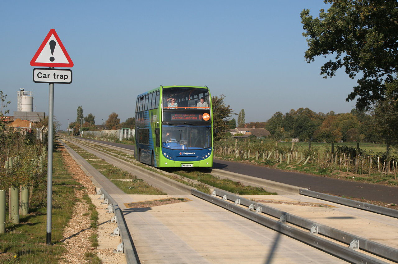 Cambridgeshire Busway, Data from Geograph: Description: A Cambridge-bound bus approaching the Longstanton stop. Note the diagonal pits in the roadway designed to prevent unauthorised use of the busway. ICBM: 52.291993164558, 0.053523613782334 Location: (about 1 km from) near to Longstanton, Cambridgeshire, Great Britain.